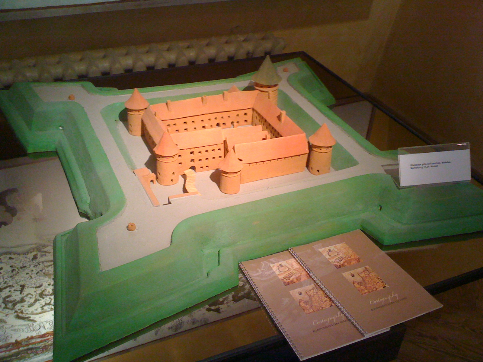 Memelburg castle 17th century